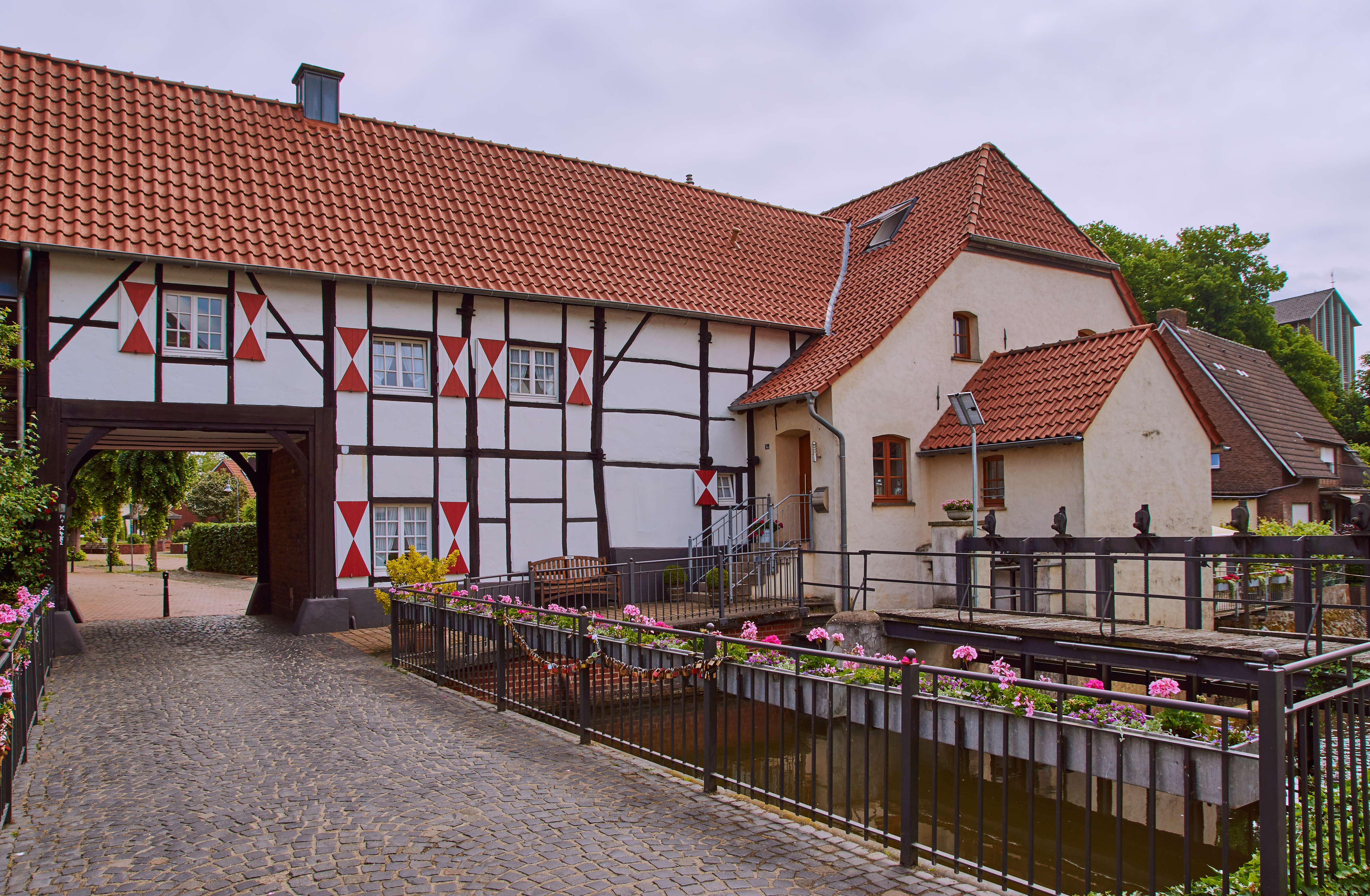 Torhaus und Mühle der Gemener Freiheit, Borken This is a photograph of an architectural monument. IV 16